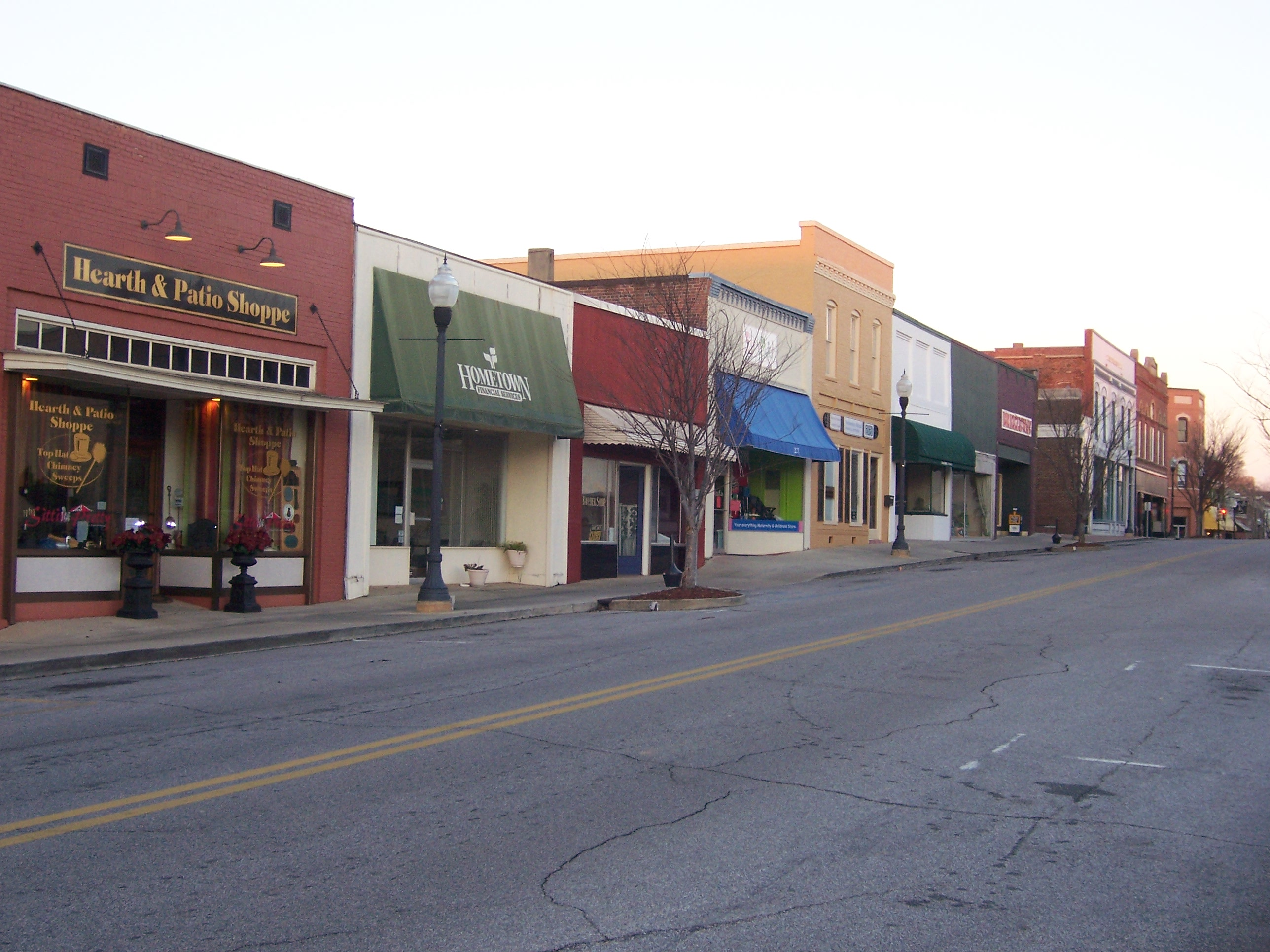 Downtown Opelika, Lee County, Alabama, United States.